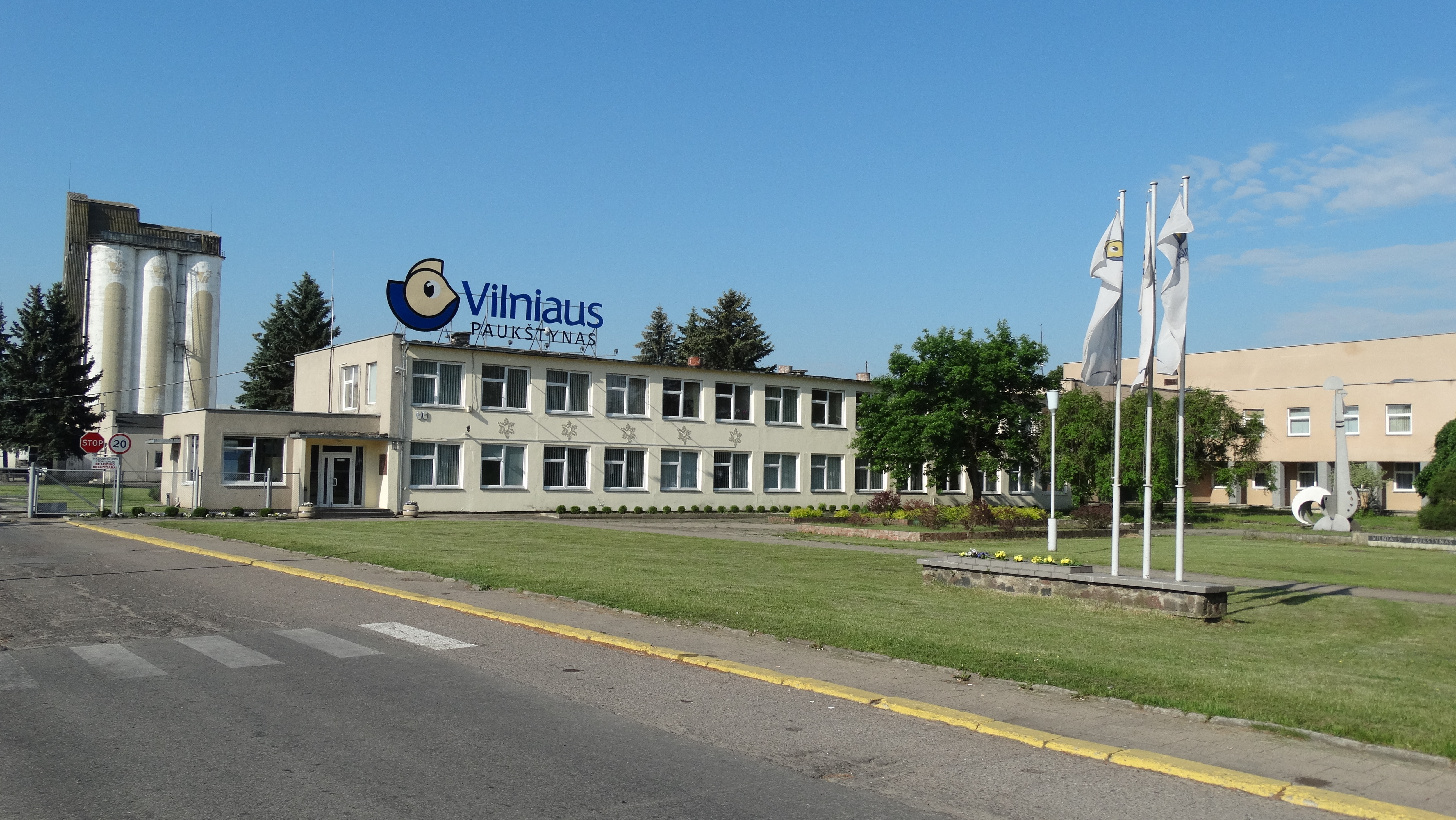 Poultry company, Rudamina, Vilnius District, Lithuania